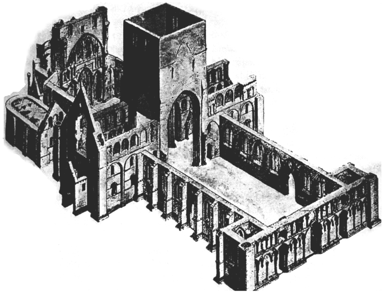 Preserved medieval masonry of Nidaros Cathedral, Trondheim, Norway. Drawing by J. Mathiesen.